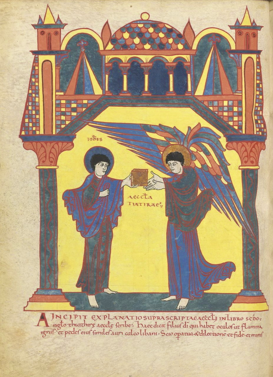 The Saint-Sever Beatus, also known as the Apocalypse of Saint-Sever, (Paris, Bibliothèque Nationale, MS lat. 8878) is a French Romanesque illuminated Apocalypse manuscript from the 11th Century.